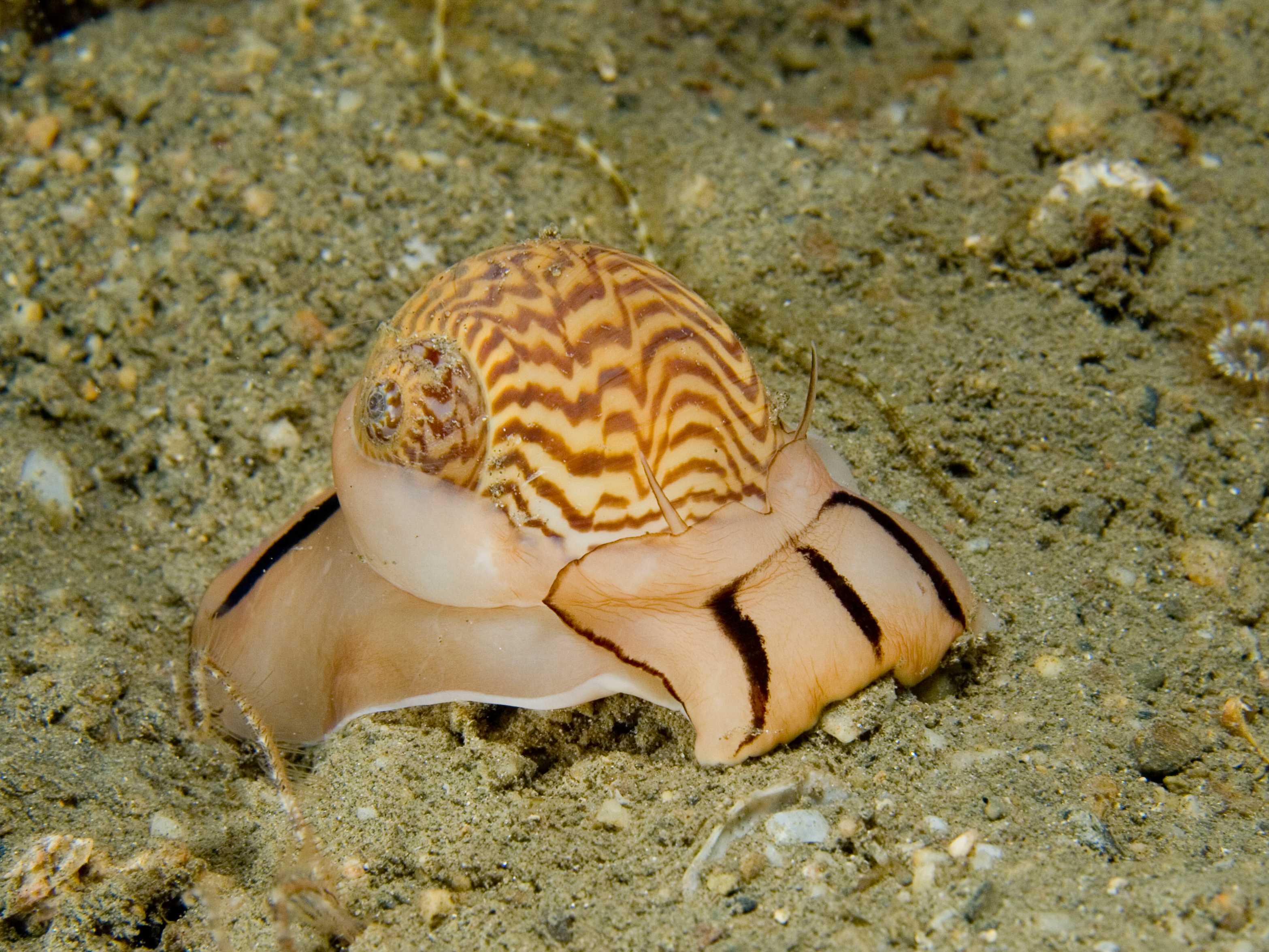 A nocturnal Tanea undulata Moon Snail from East Timor. This snail prefers to bury itself in the sand during the day.